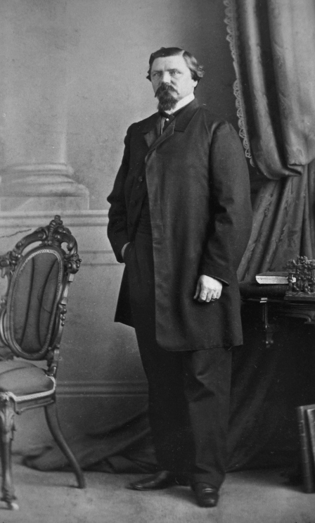 Photograph: Charles J. Coursol, Montreal, QC, 1863, by William Notman (1826-1891), 1863. Silver salts on paper mounted on paper, Albumen process, 8 x 5 cm